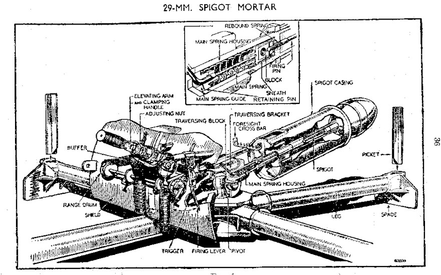 Cutaway drawing of the Blacker Bombard. Training manual for "29 mm Spigot Mortar", published by HMSO, 1942.